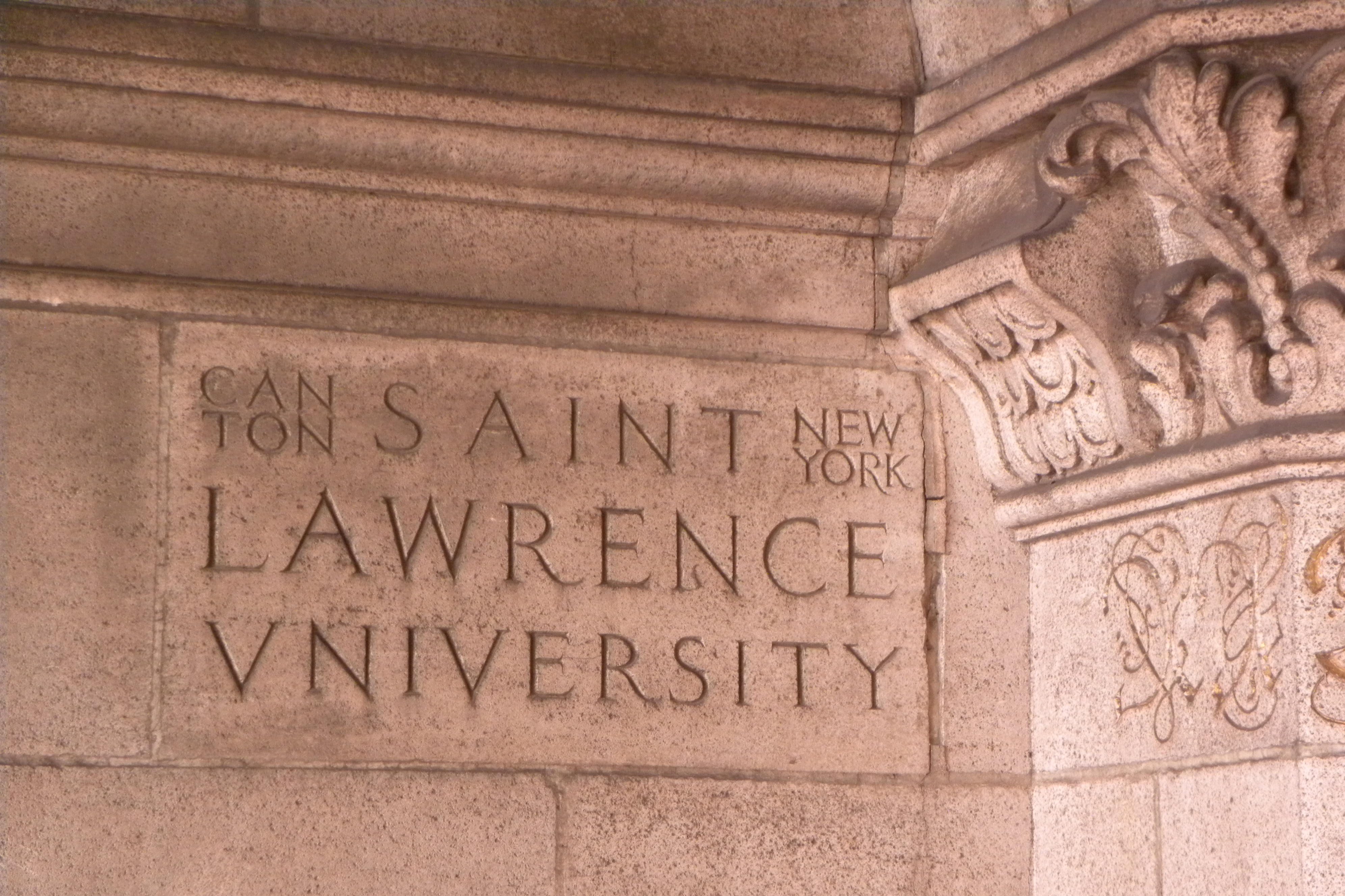 Engraved stone, facade of the Louvain (Belgium) university library. Commemorates the financial support received from St Lawrence University (among many others US University and Educational bodies) to rebuild the library after its bombing in 14-18.